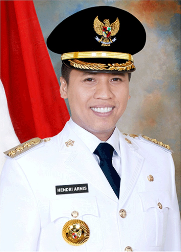 Hendri Arnis, Mayor of Padang Panjang city, West Sumatra, Indonesia period 2013—2018.